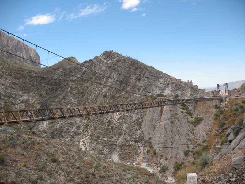 Recuerdo del Puente de Ojuela (Gold_Mine 1892) near Torreon, Mexico